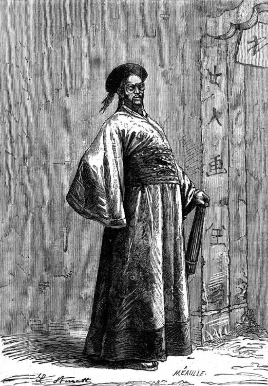 An illustration from Jules Verne's novel "Tribulations of a Chinaman in China" (1878) drawn by Léon Benett.